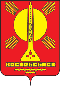 Voskresensk (Moscow oblast), coat of arms (1987)